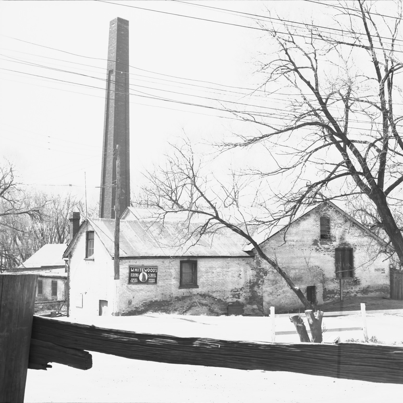 This 1958 picture shows the Taylor Brothers’ paper mill, located on the Don River just south of Pottery Road. It was built by Isaiah & Aaron Skinner, and was later operated by Skinner & Eastwood. It’s now the Todmorden Mills Heritage Museum. Creator: Salmon, James Victor, (1911-1958) Date: 1958 Identifier: S 1-870 Format: Picture Rights: Public domain Courtesy: Toronto Public Library. More information: (view details and larger image)